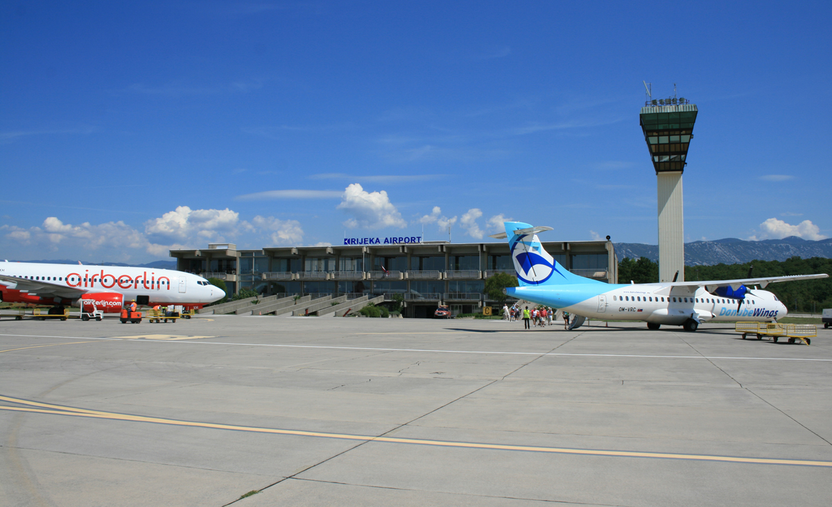 Overview from apron.